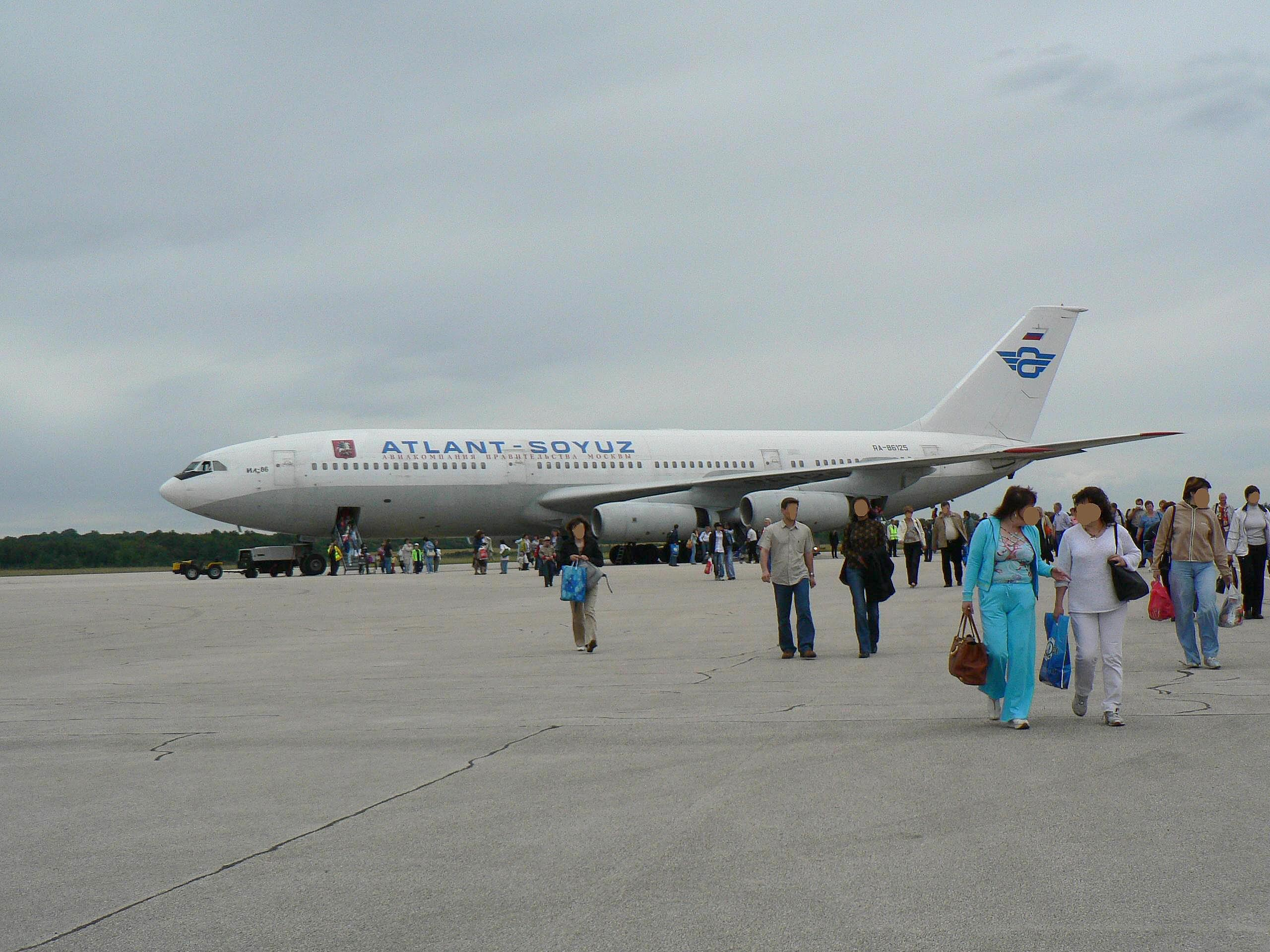 Atlant-Soyuz Airlines Ilyushin Il-86 (RA-86125) in Pula, Croatia, june 2006